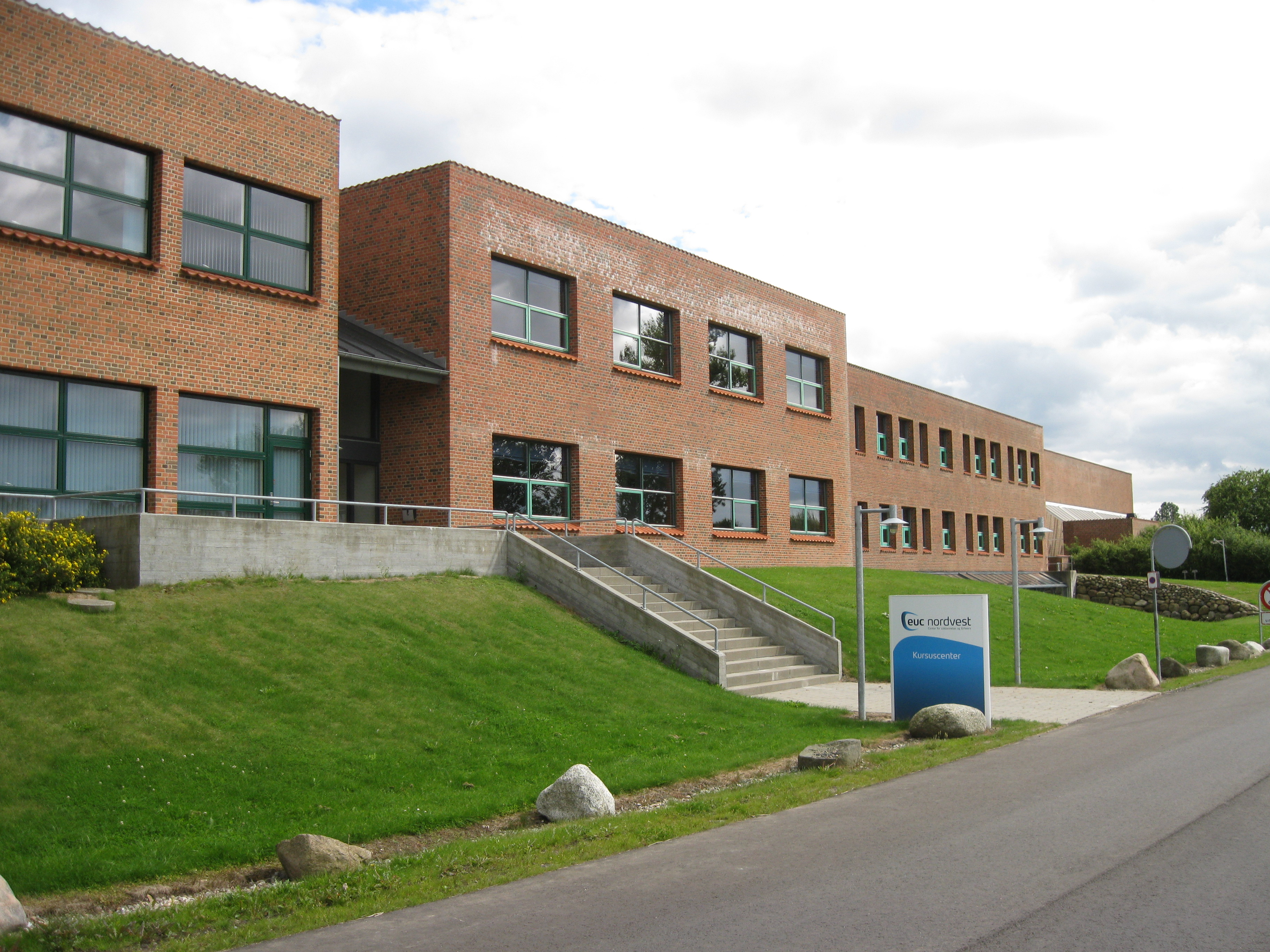 The school EUC Nordvest, Nykøbing Mors, Denmark